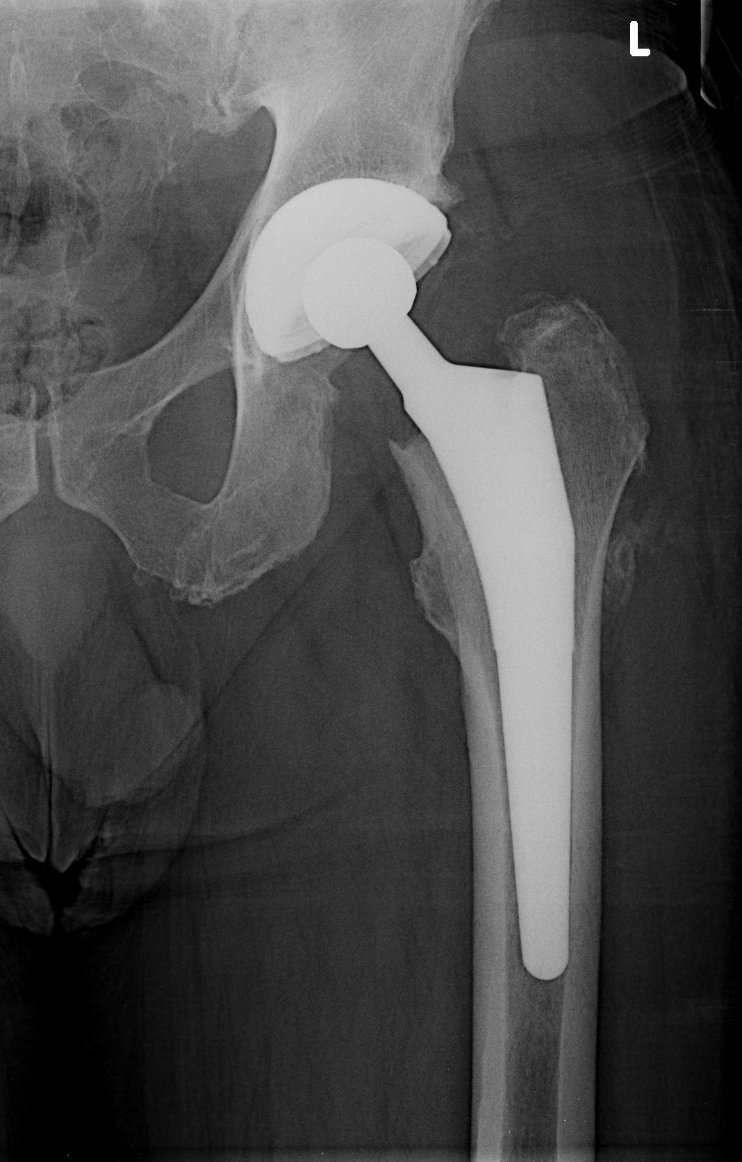 X-ray of a Total Hip Protesis left.